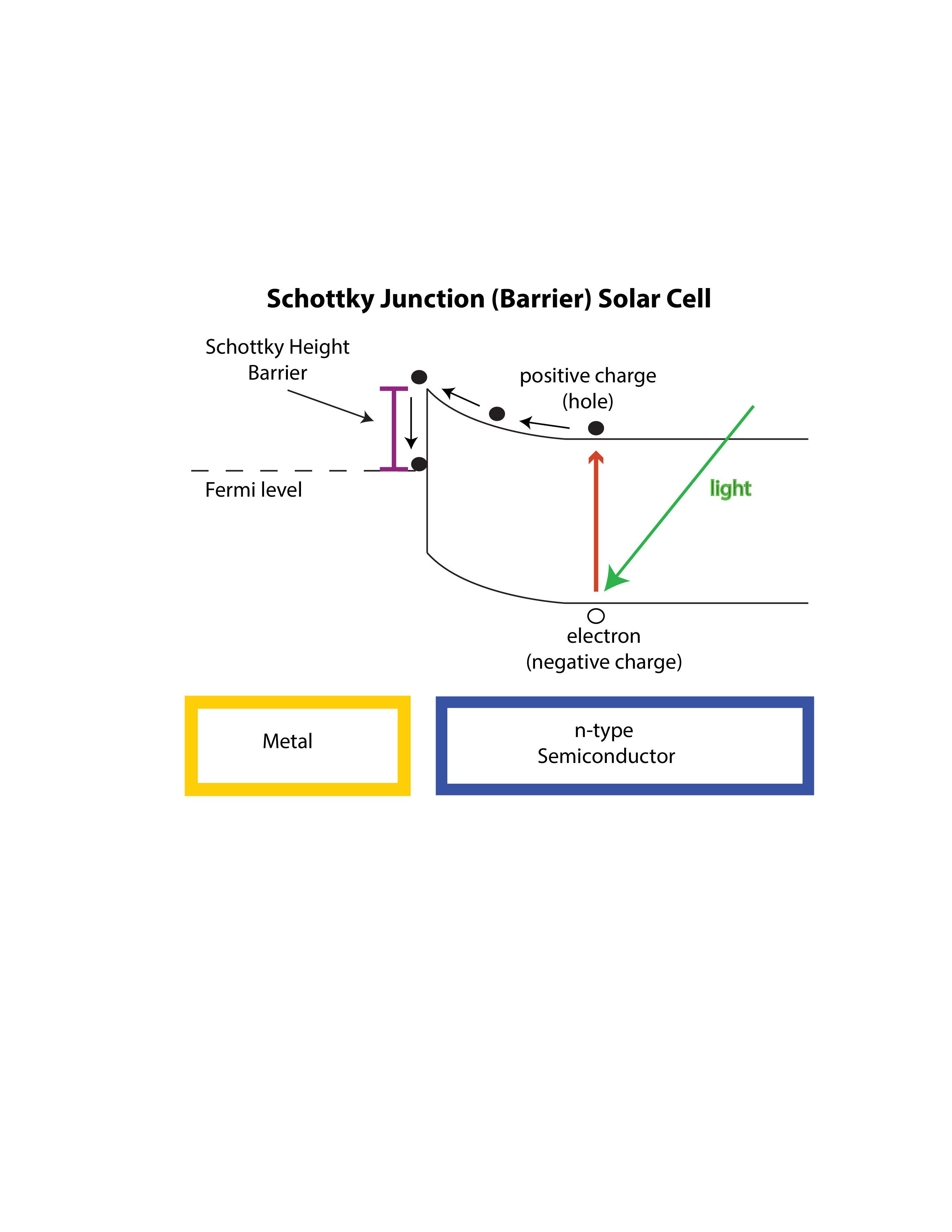 Band diagram of Schottky junction